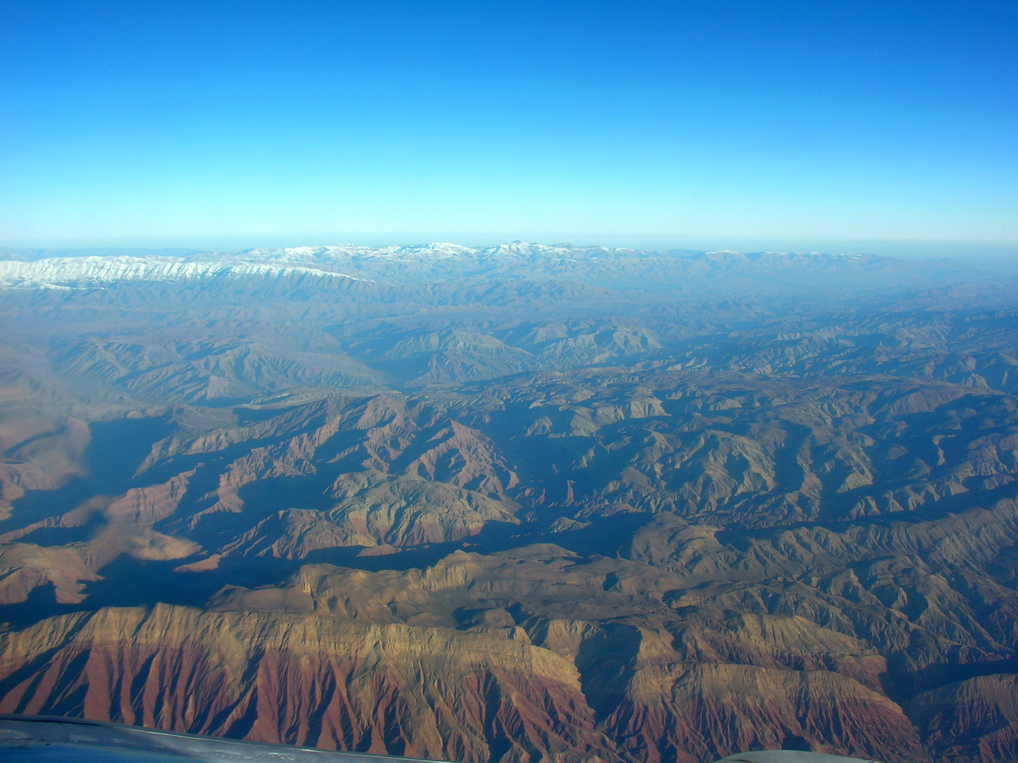 Aerial View of ENE of Garmsar